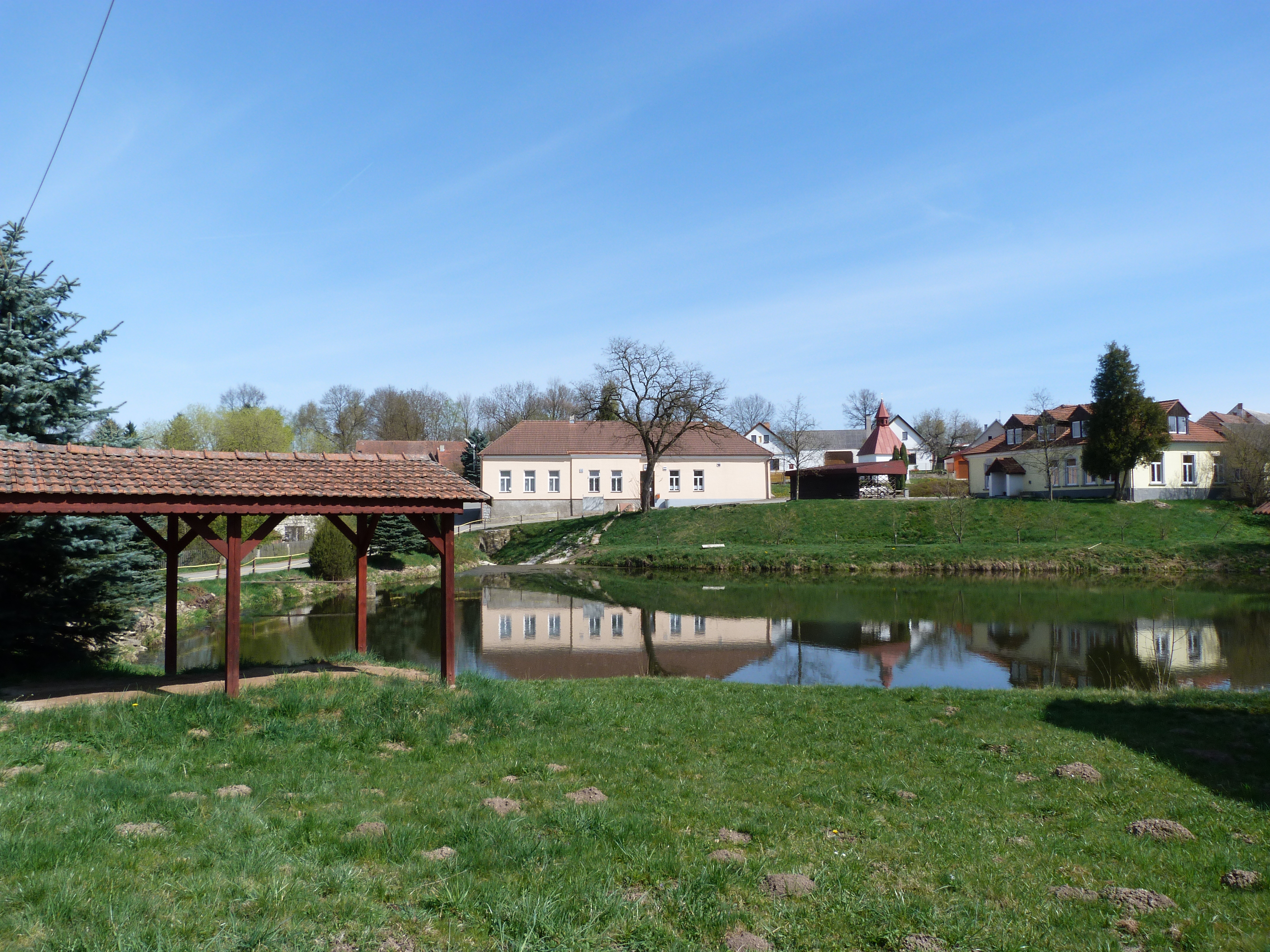 Útěchovice, Pelhřimov District, Czech Republic